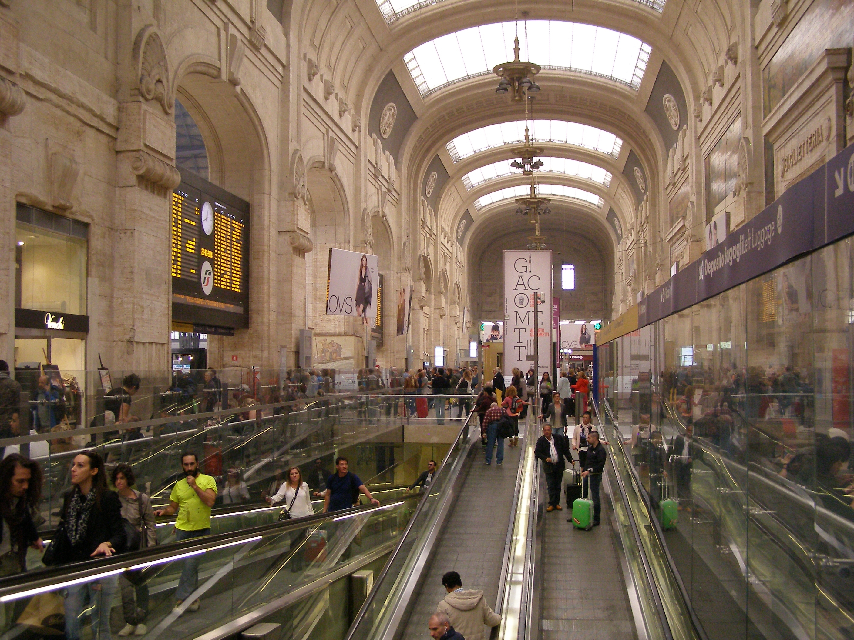 Milan - Milano Centrale railway station building